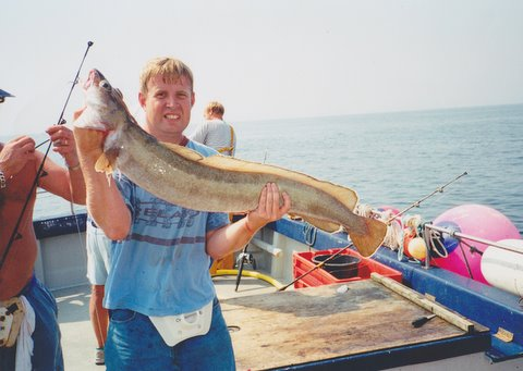 A big ling.